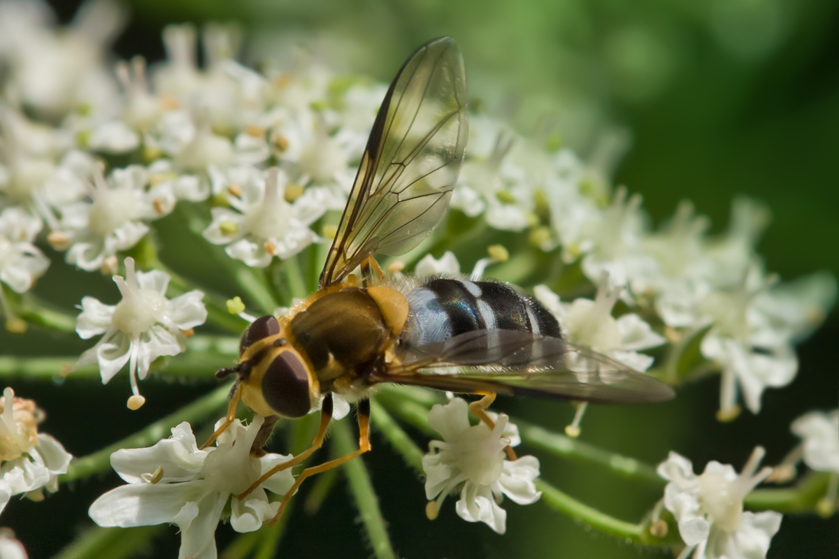 (Ischyrosyrphus glaucius)